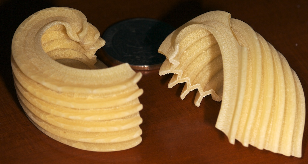 Uncooked lanterne pasta, with a US quarter for scale.